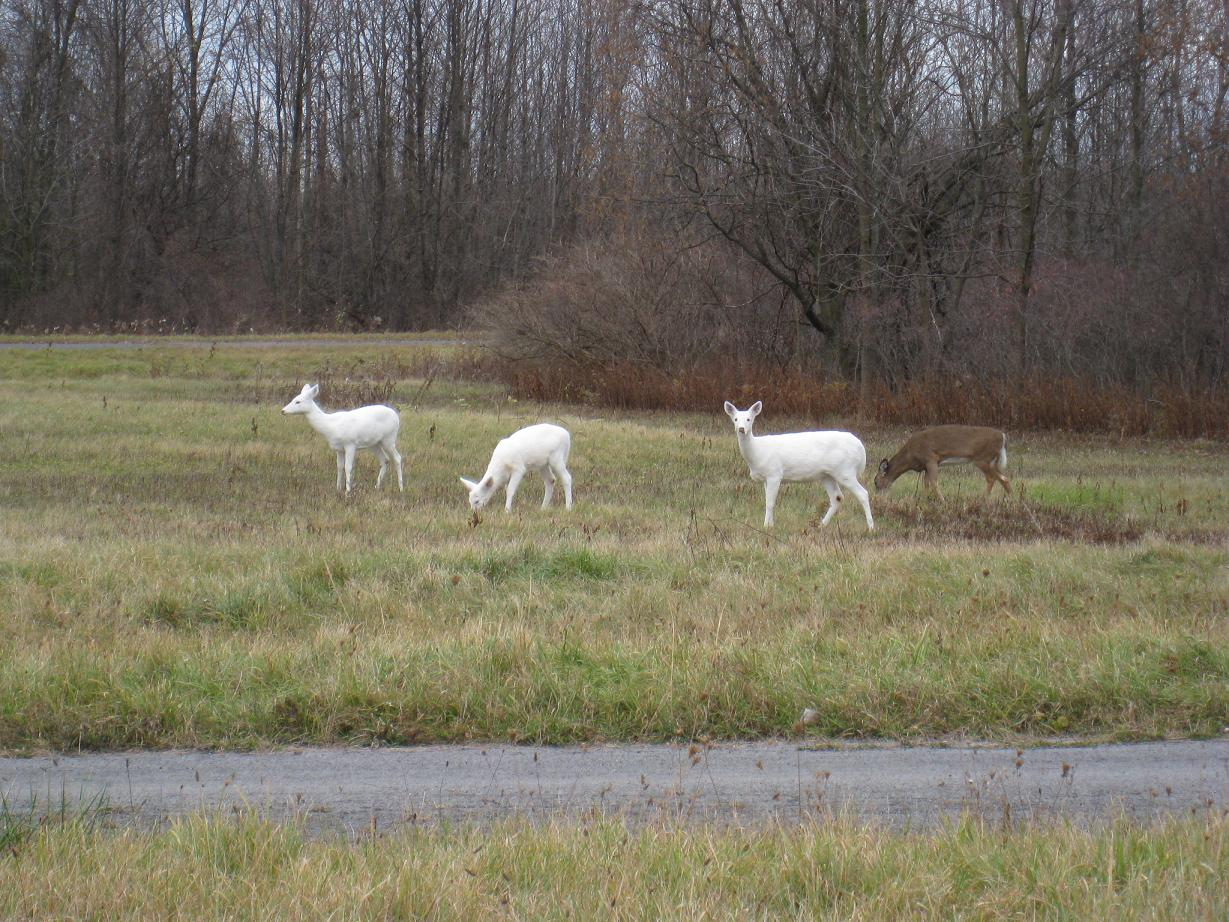 Three Seneca White Deer at the Seneca Army Depot. Picture was taken with a Canon Power Shot SD850 camera.